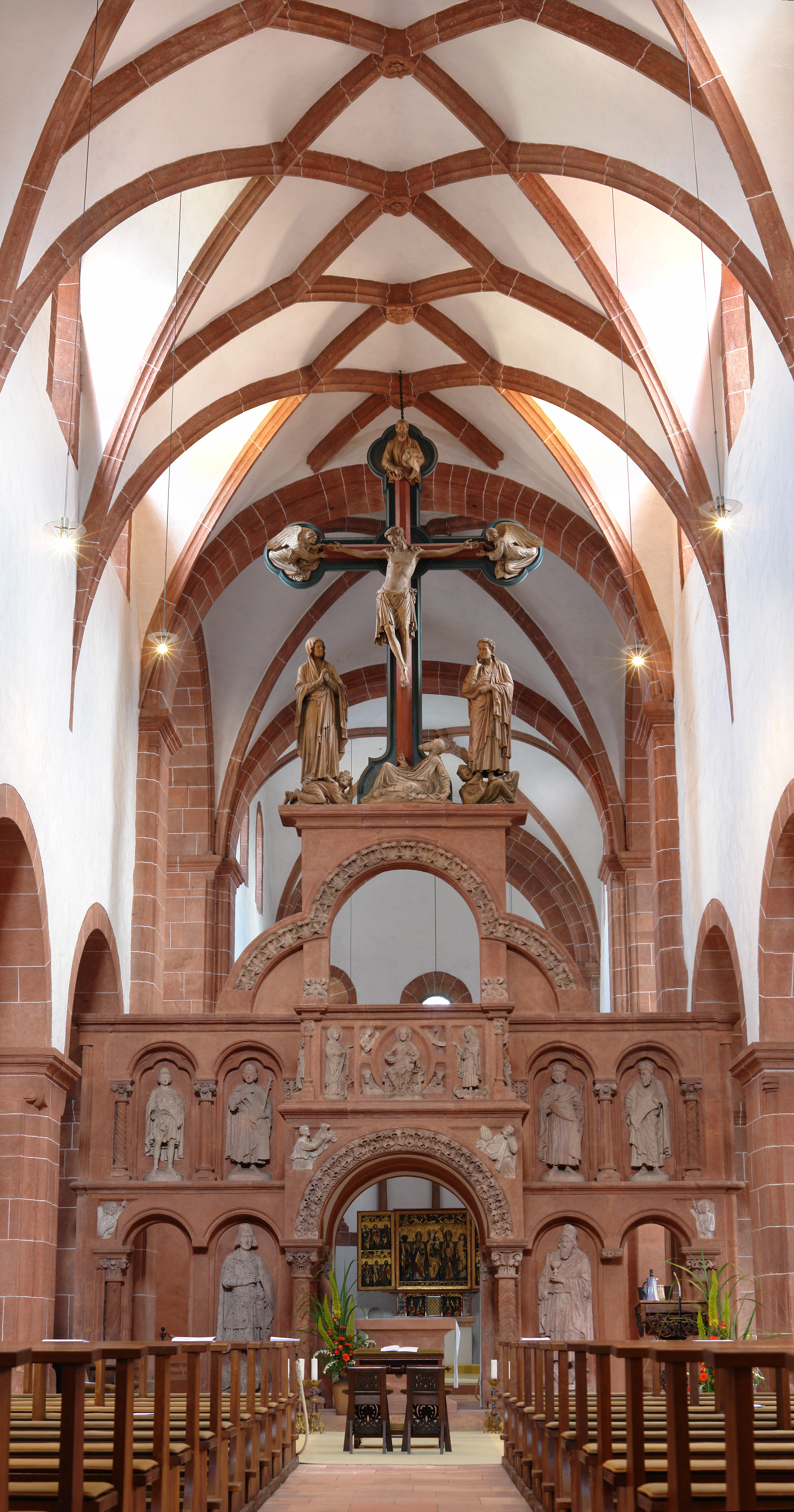 Rood screen in Wechselburg in Saxony Germany